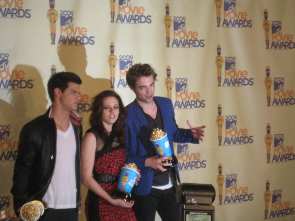 Kristen Stewart, Robert Pattinson, and Taylor Lautner attend the 2009 MTV Movie Awards Licensed under a creative commons share-alike license. Use freely, but give credit Philip Nelson, Live Streaming Expert and link to .